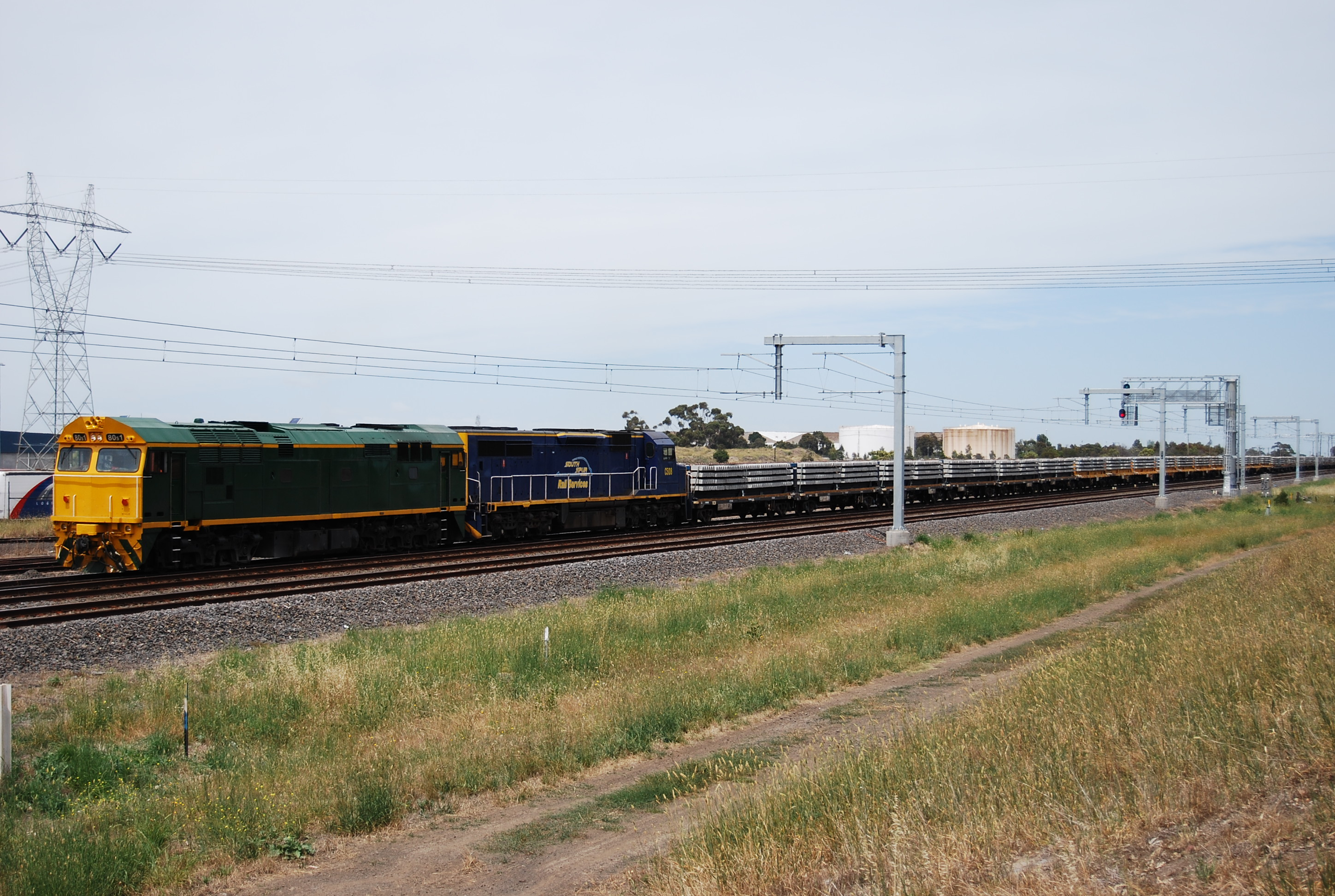 80s1, formerly 8026, with a sleeper train at Somerton, Victoria.